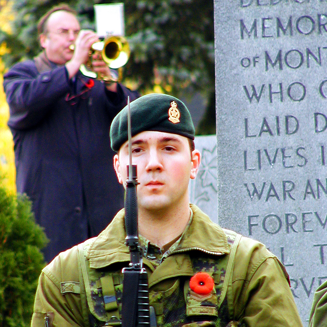 A Remembrance Day ceremony at the Montreal West Cenotaph